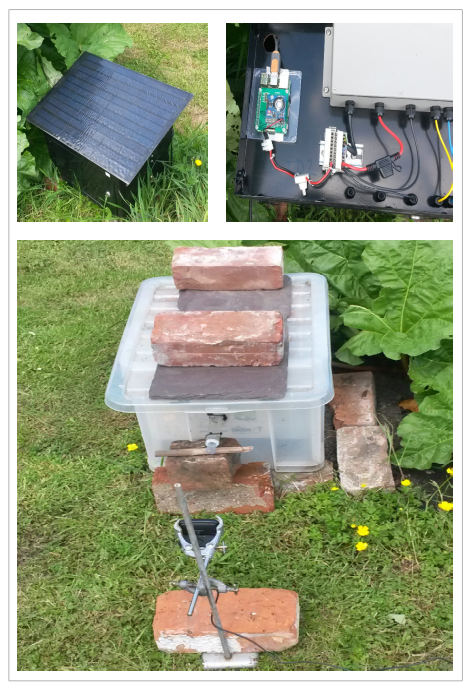 Mosaic showing compenent hardware comprising modern Rana system.